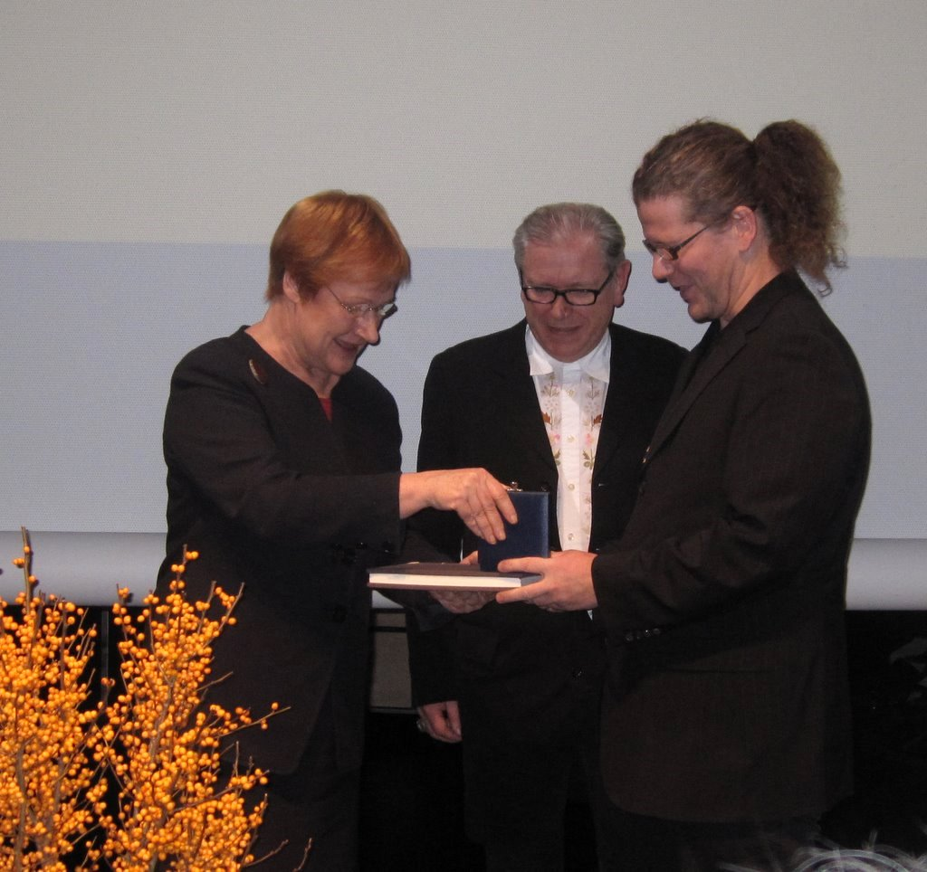 Tarja Halonen presents the Ars Fennica prize to artist Charles Sandison